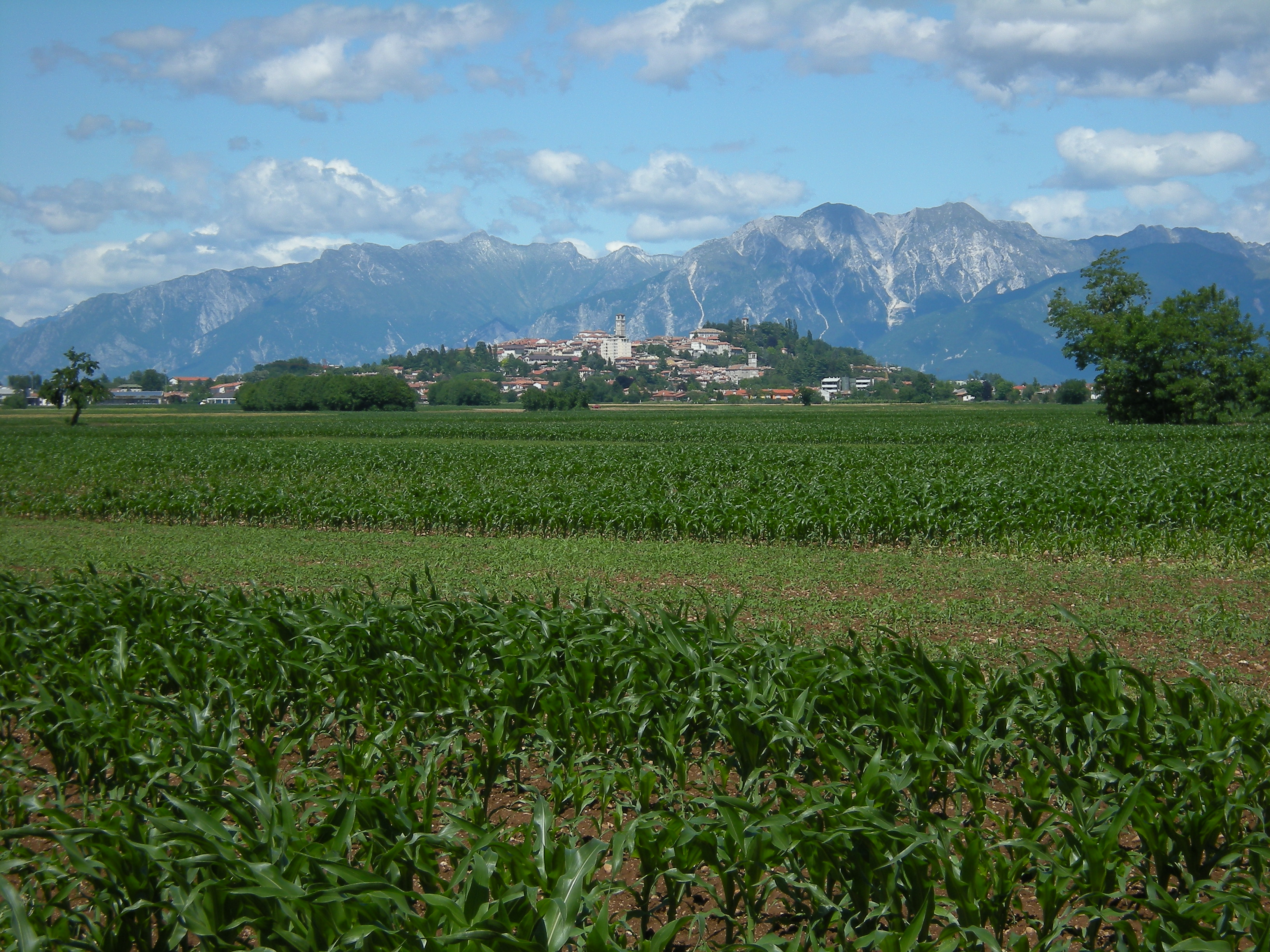 San Daniele del Friuli from Villanova